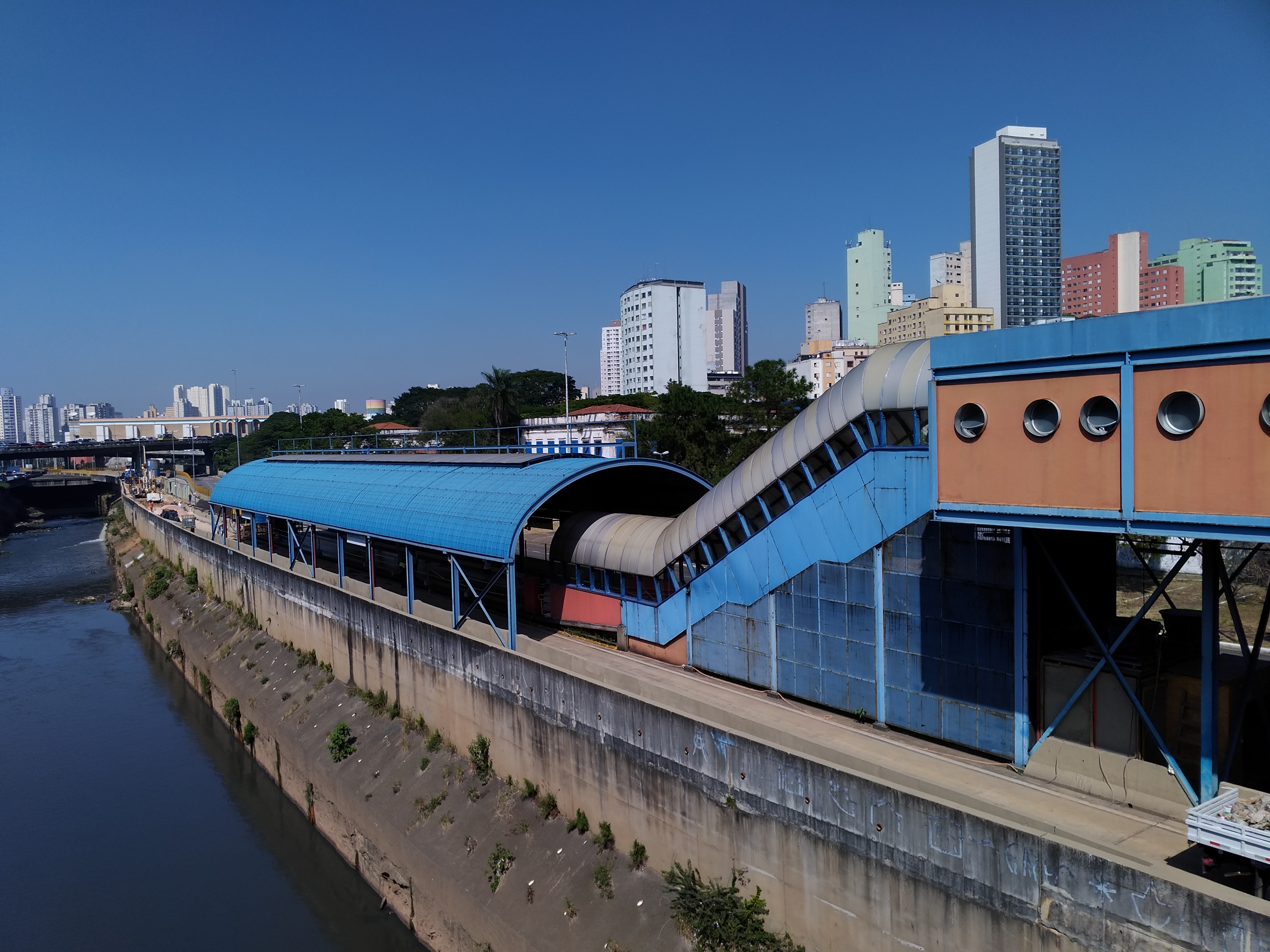 External image for Pedro II Station, BRT Expresso Tiradentes.